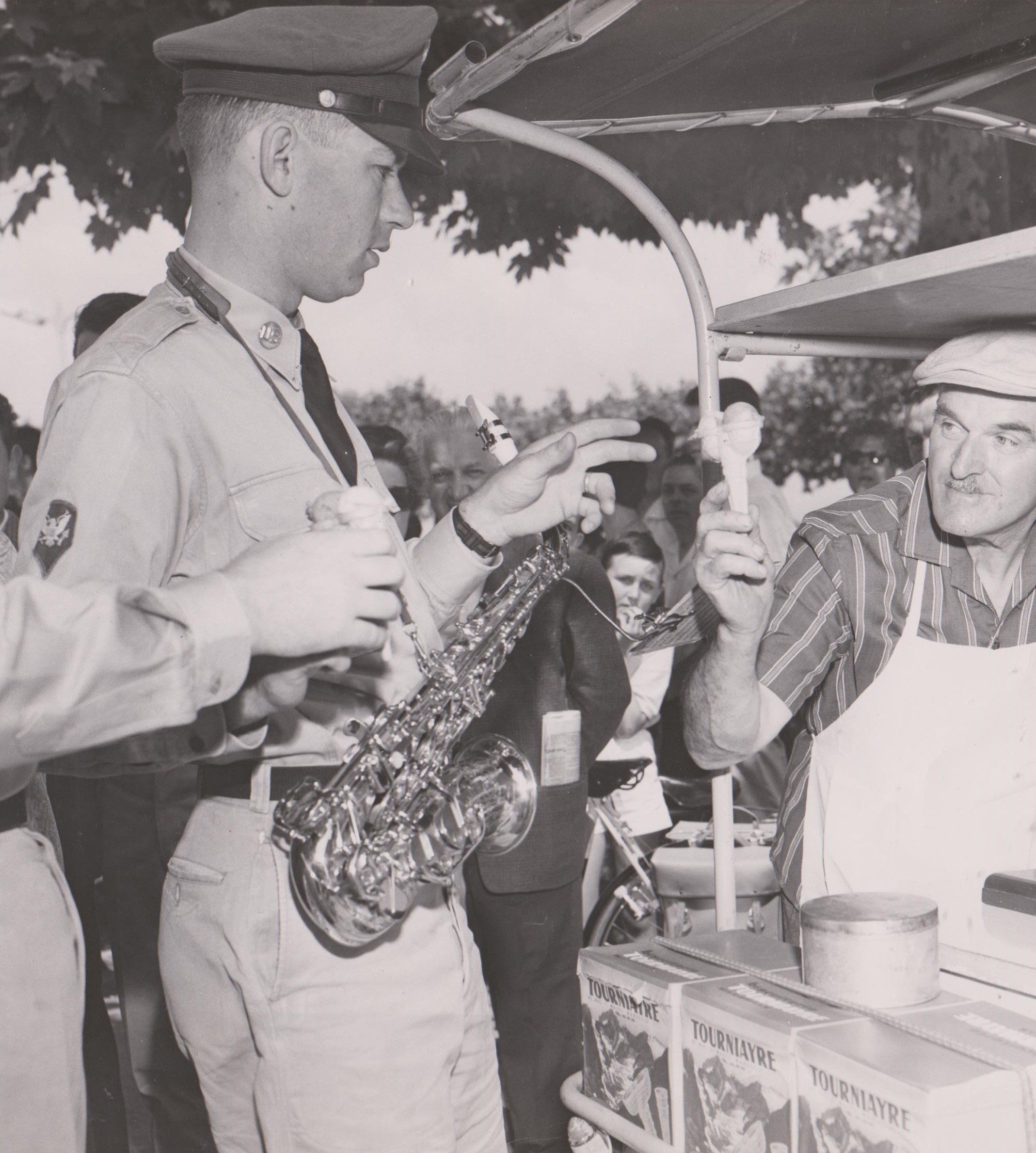 Specialist 4 Ralph Lee Bowerman, taking a break during a US Army Band performance in France, 1961.